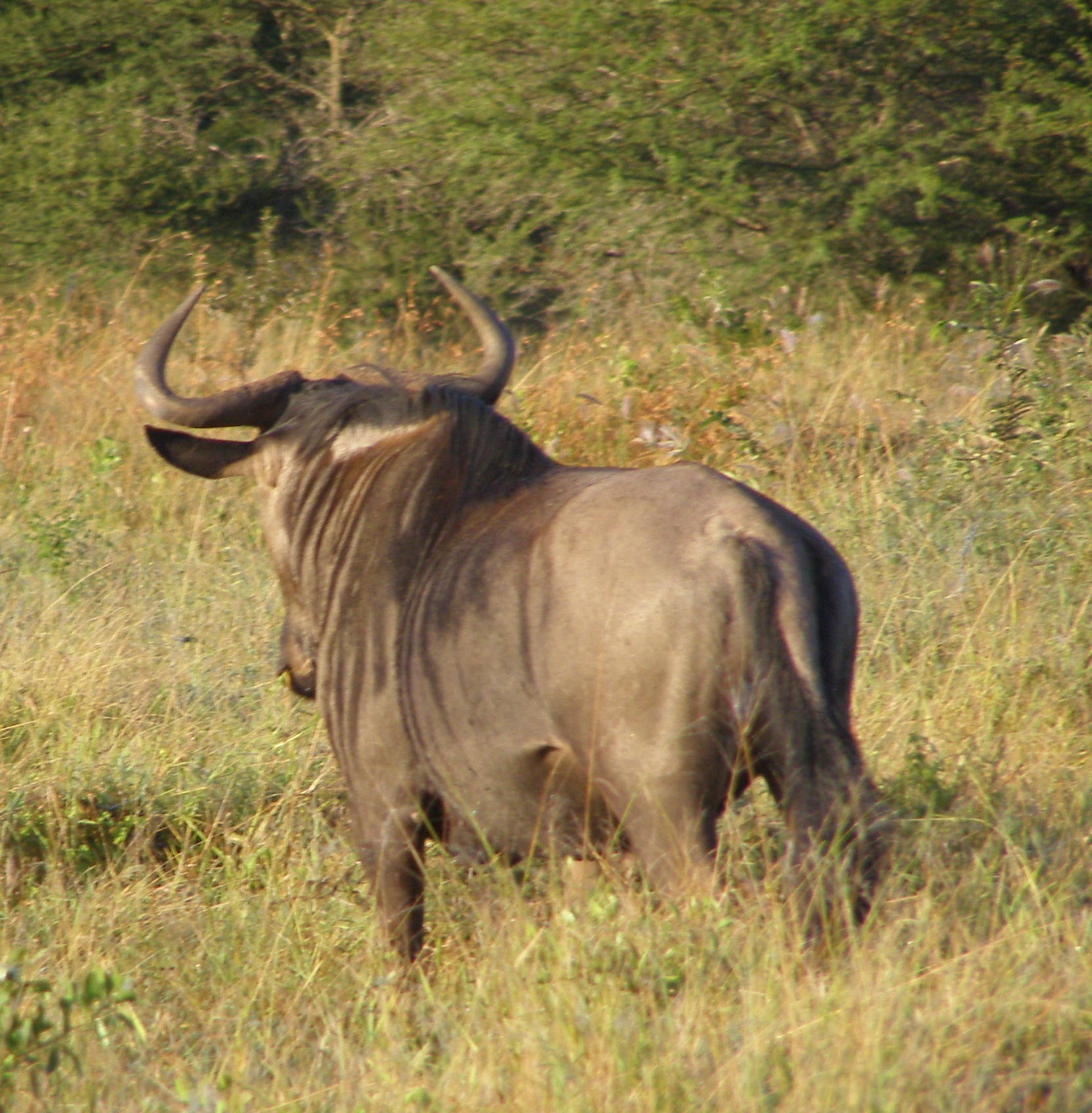 A Blue Wildebeest (Connochaetes taurinus) from the rear.